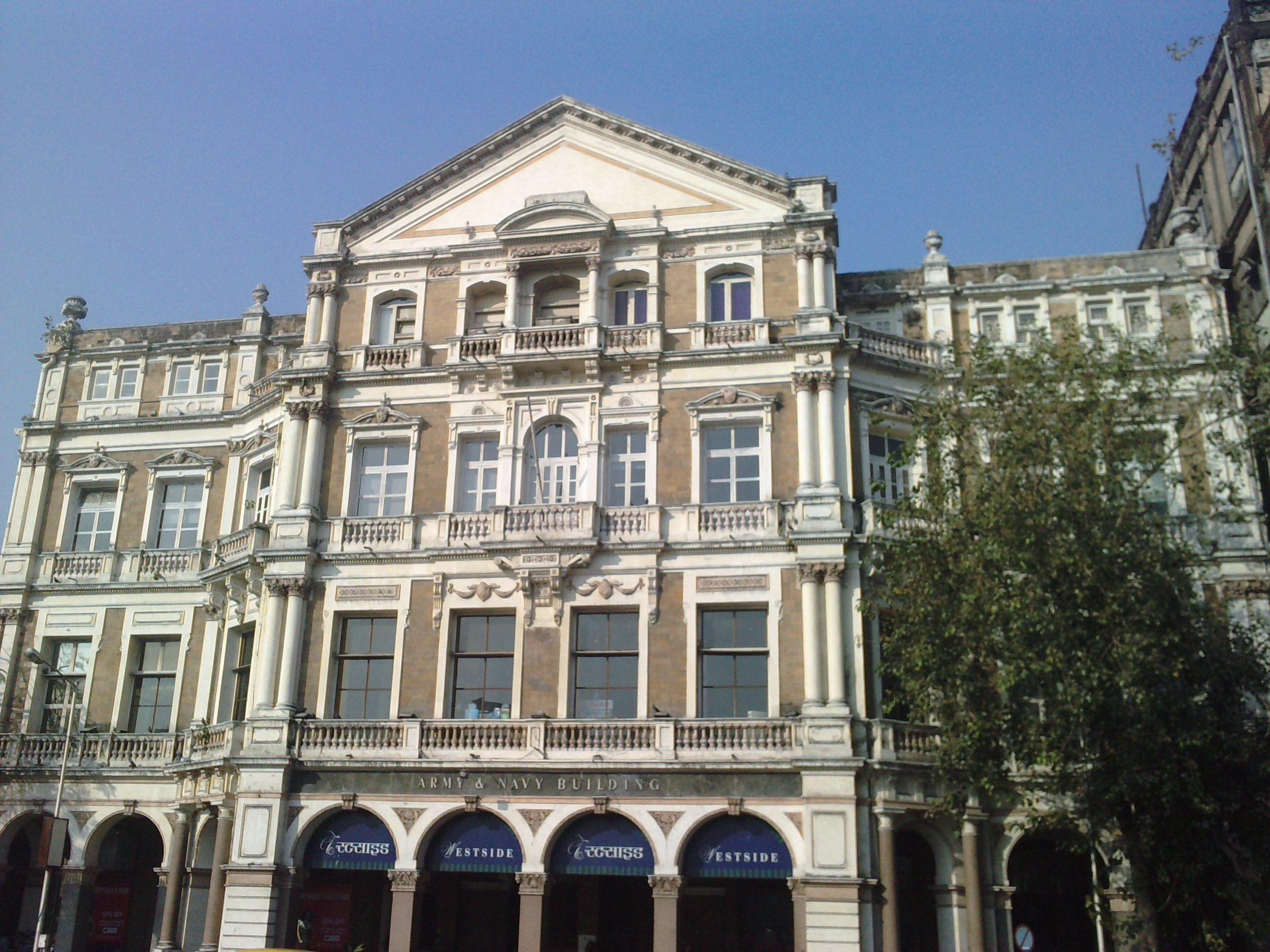 TAKEN DURING WIKIPEDIA TAKES MUMBAI 1 PHOTOWALK